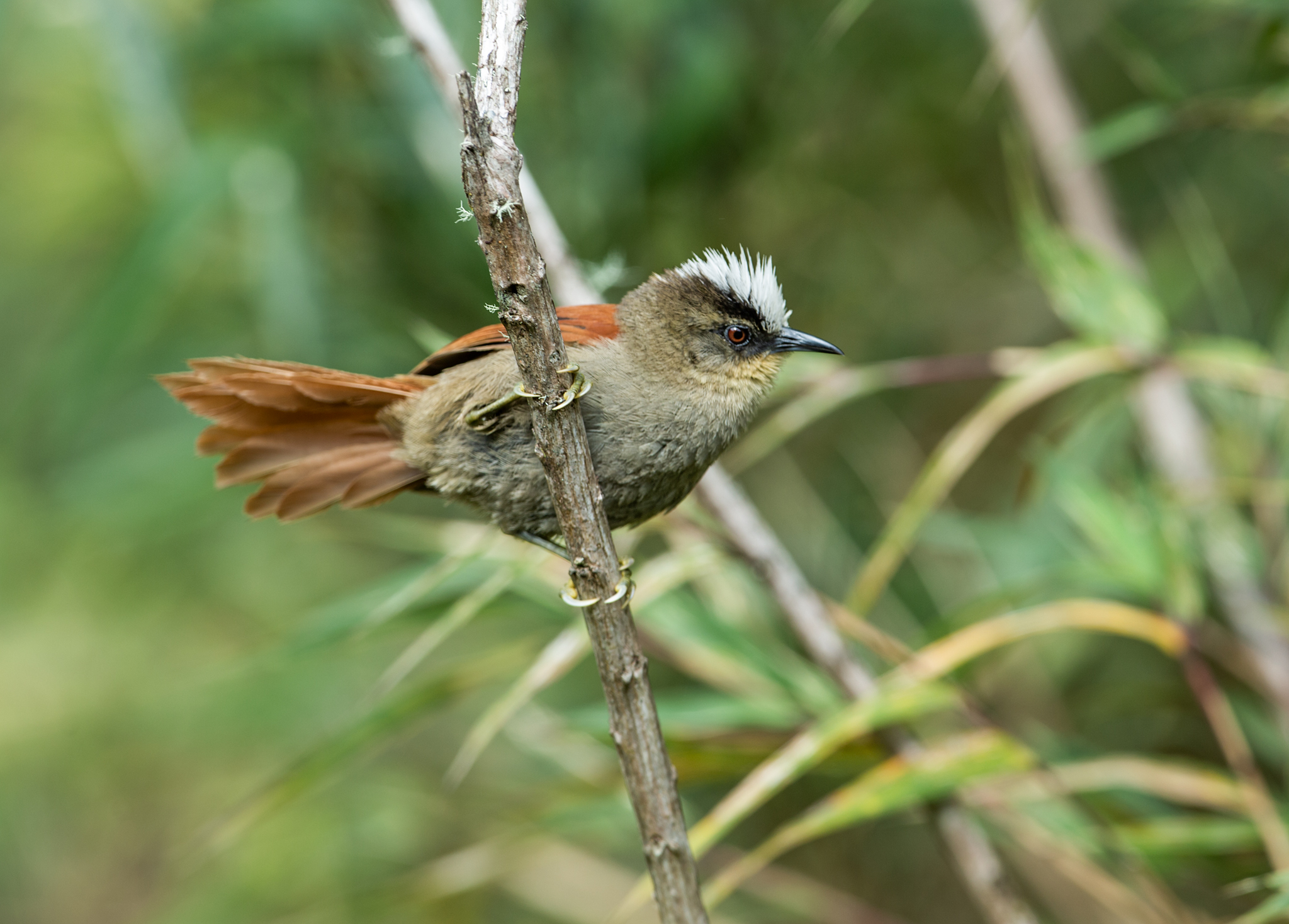 Marcapata Spinetail (ssp. weskei) from Apalla, Junín, Peru.